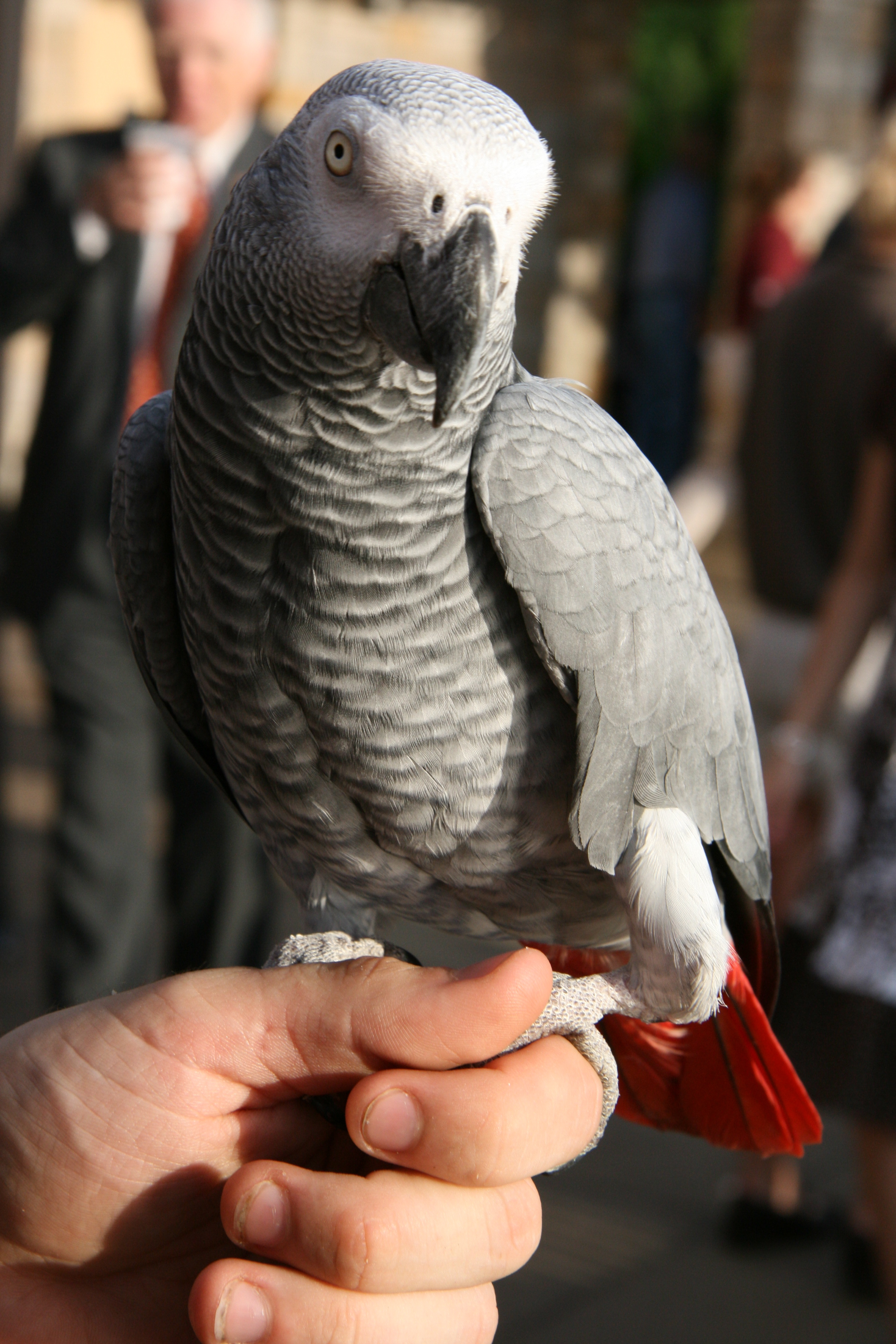 Congo African Grey Parrot (Psittacus erithacus erithacus). Pet parrot held on a hand.